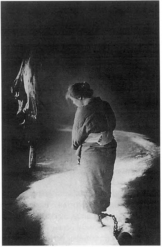 Kumeko Urabe in Seisaku's Wife by Minoru Murata (1924)